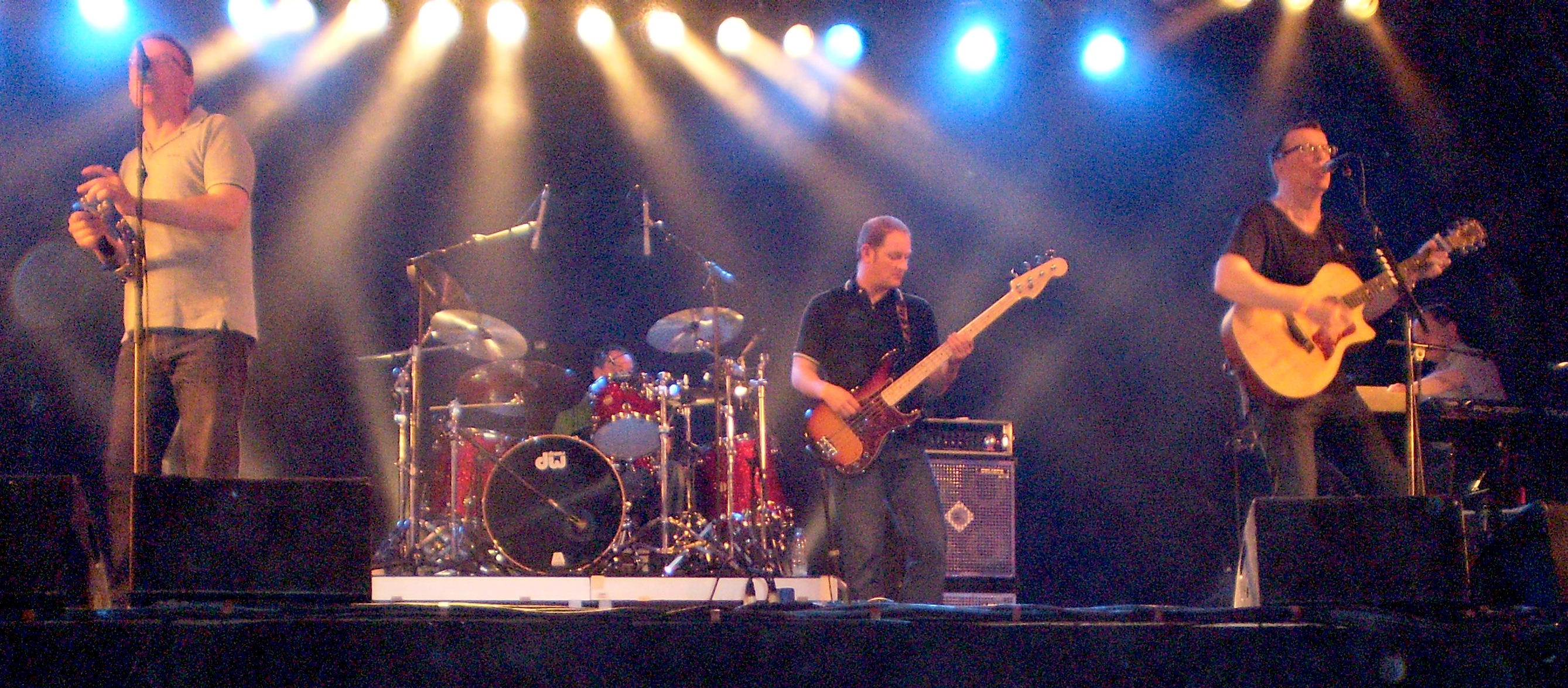 The Proclaimers at Dranouter Aan Zee festival, in De Panne (Belgium), April 2010.